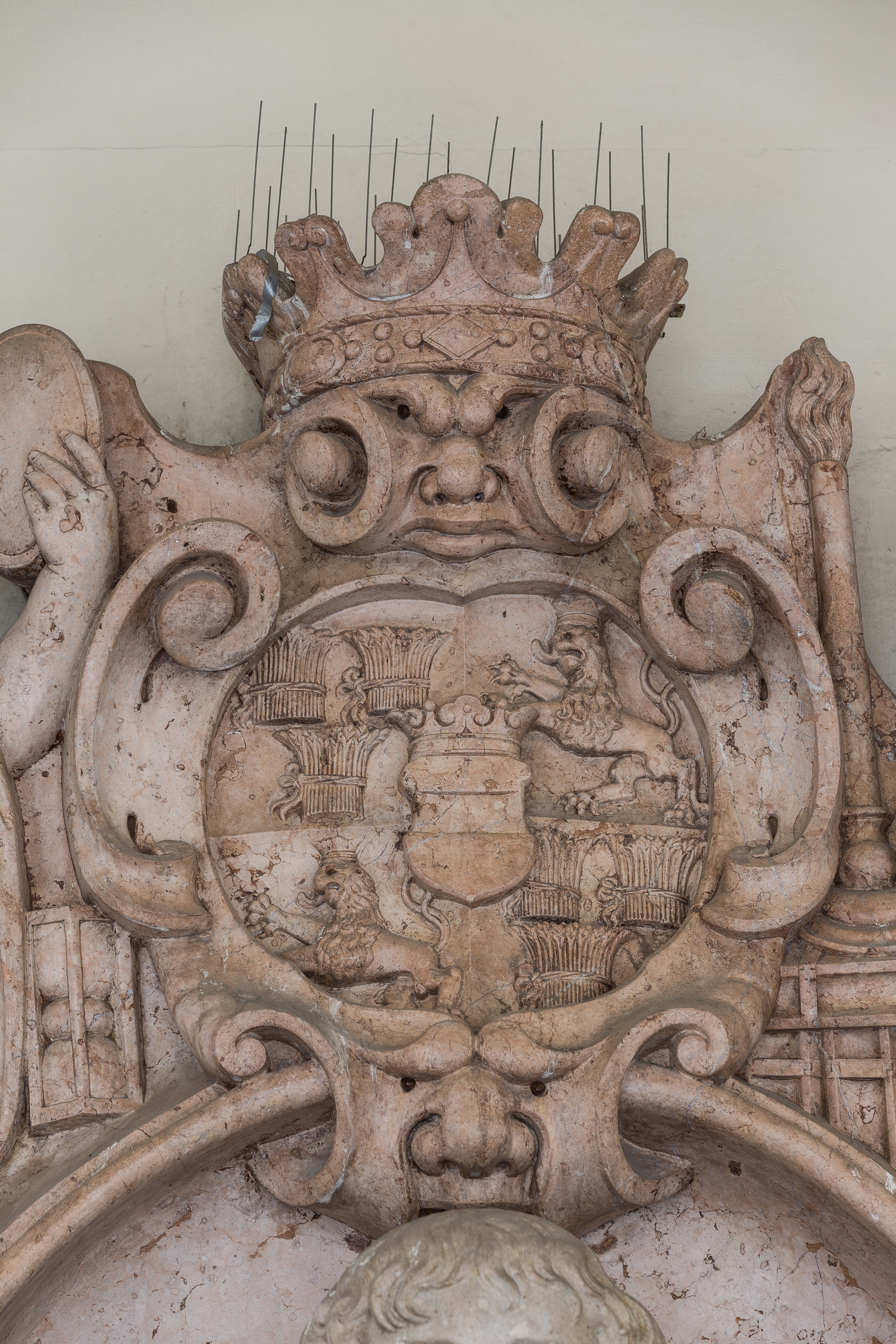 Minoritenkirche Vienna, Epitaph for Johann Rudolf von Puchheim, 17th century, in the arcades on the southside The making of this work was supported by Wikimedia Austria. For other files made with the support of Wikimedia Austria, please see the category Supported by Wikimedia Österreich.